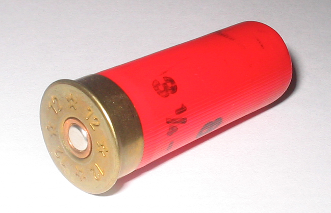 Photograph of 12 gauge shotgun shell